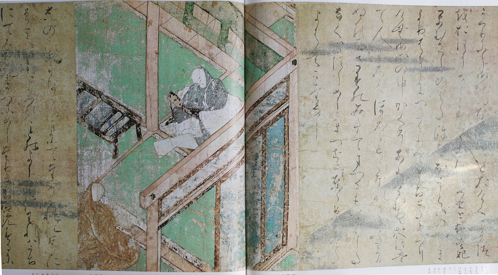 A scene of handscroll of NEZAME MONOGATARI, Height 25.8cm, color, gold, silver on paper, late 12th century, Japan, YAMATO-NUNKAKAN museum collection, Nara, Japan